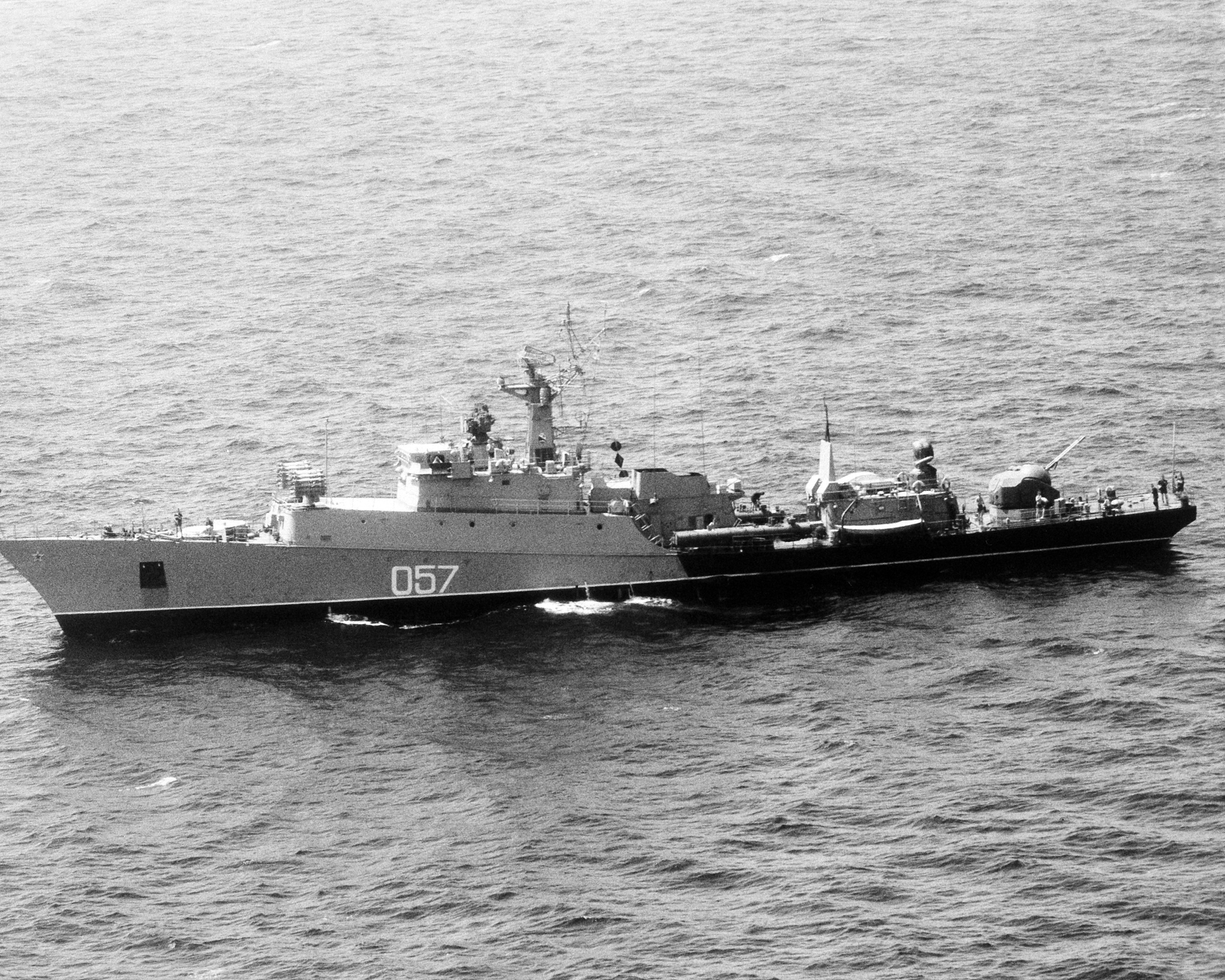 Aerial port beam view of the Soviet project 1124 (NATO code Grisha class) small ASW ship MPK-49 armed with one 57 mm antiaircraft gun and four torpedo tubes. (SUBSTANDARD)